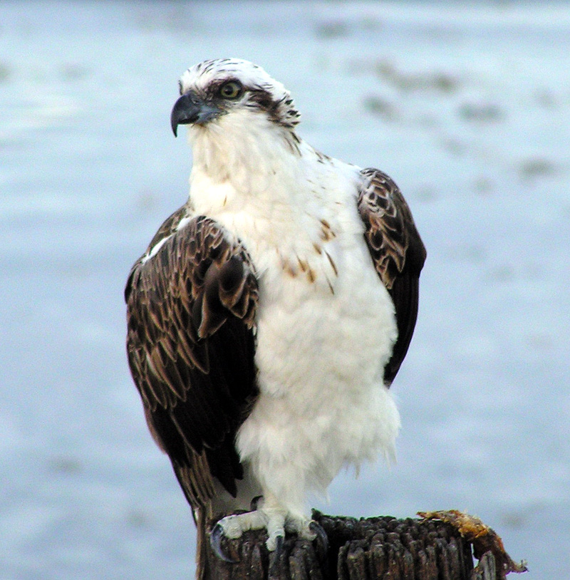 Osprey at North Beach, Perth, Western Australia